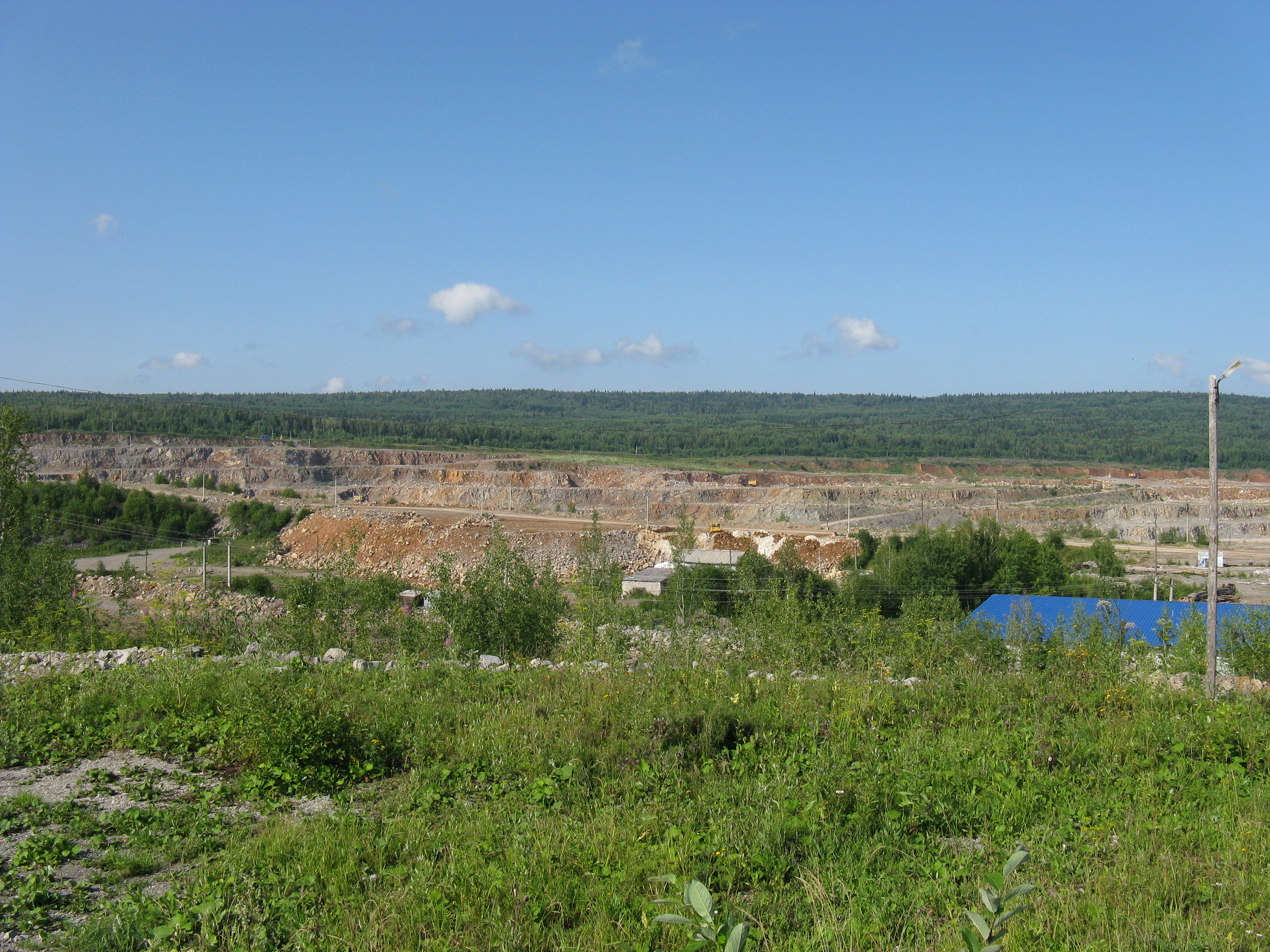 Calcareous open-cast mine in Gornozavodsk in Perm Krai